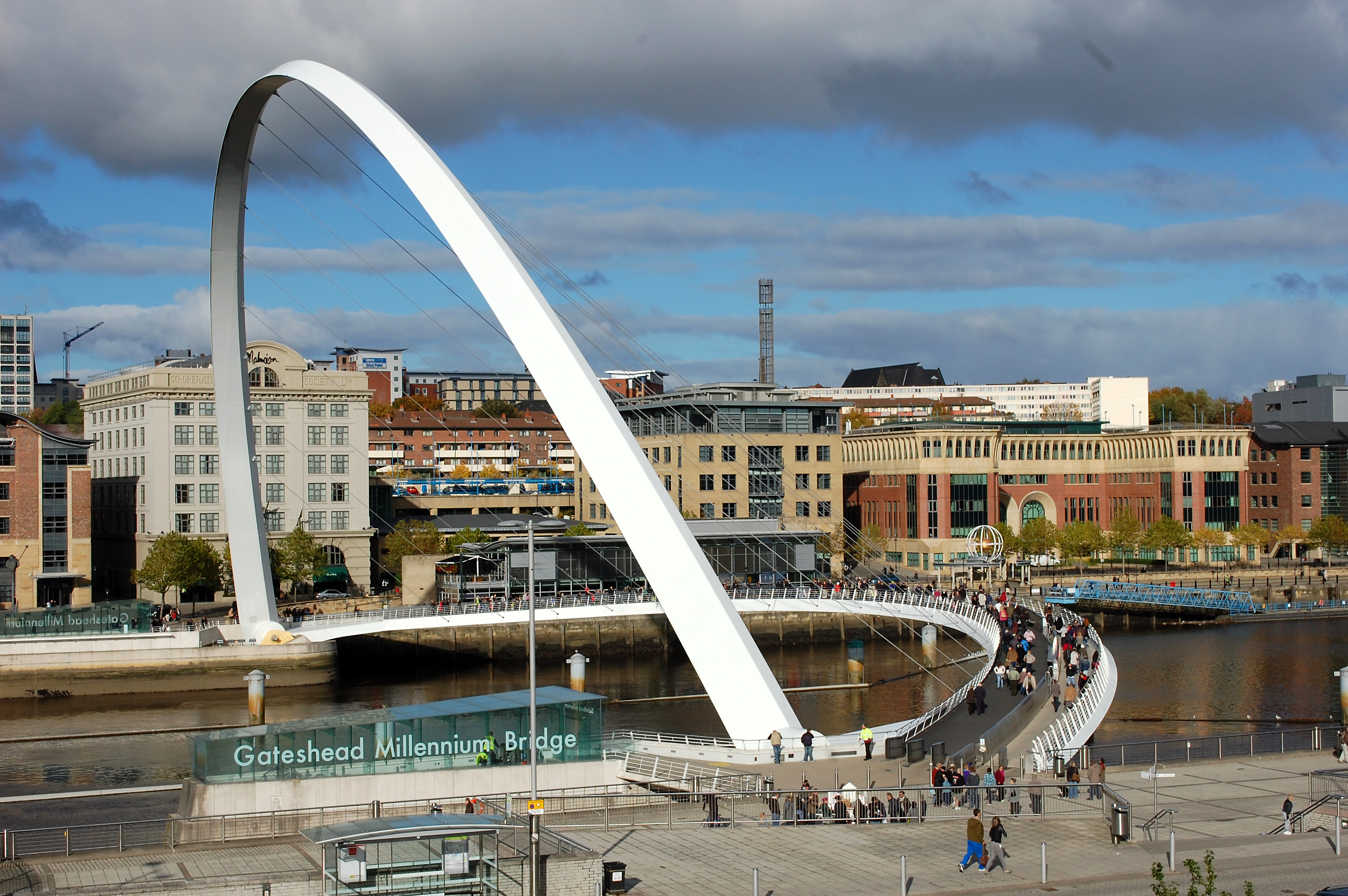 The Millenium Bridge comes down and pedestrians start walking across the Tyne, two communities reconnected.